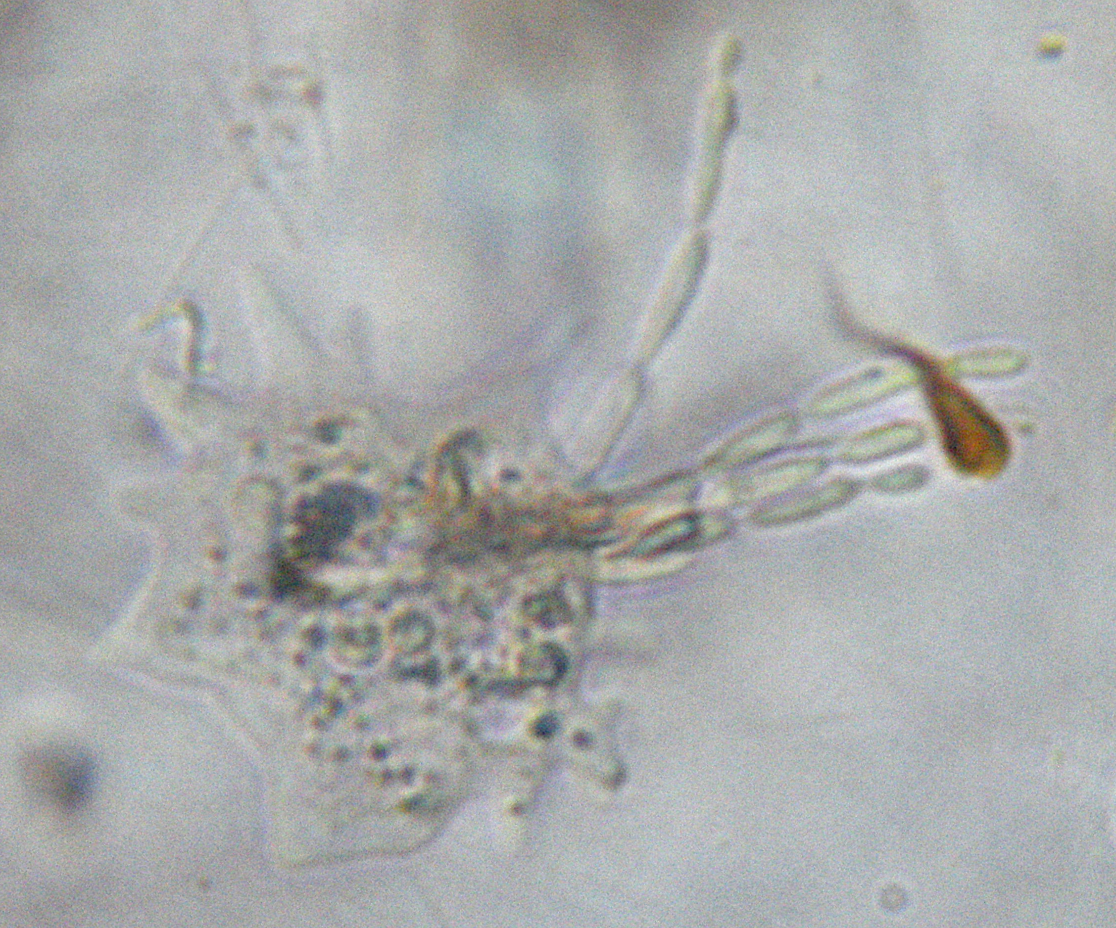 Thallus of Amoebophilus sp. infecting an unidentified amoeba. The sample came from an intermittent stream/drainage ditch in Coventry Township, Summit County, Ohio, USA. Image has been manipulated in GIMP: cropped, contrast increased 50, brightness decreased 30, sharpen filter of 0.9.